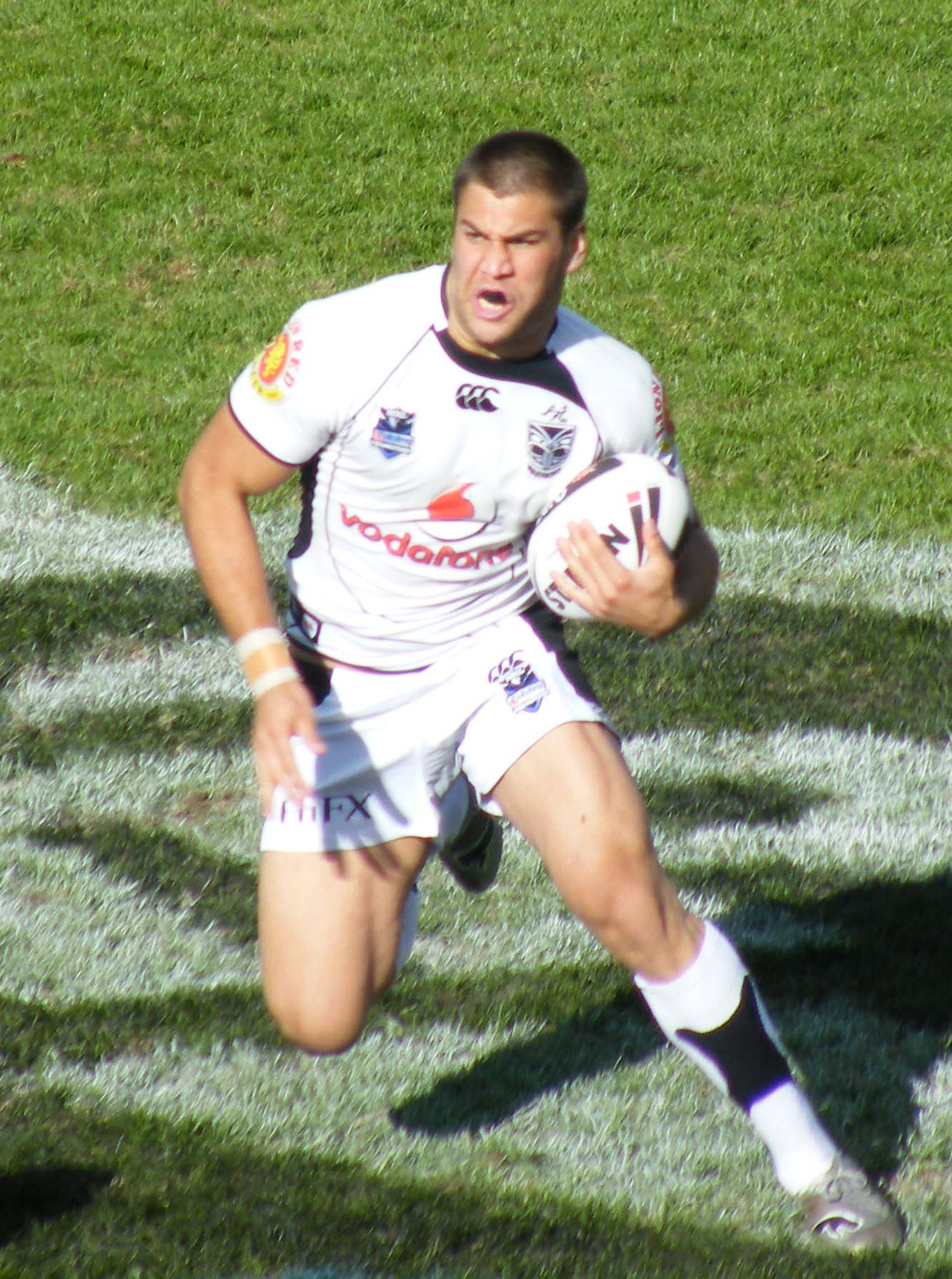 Joel Moon of the New Zealand Warriors